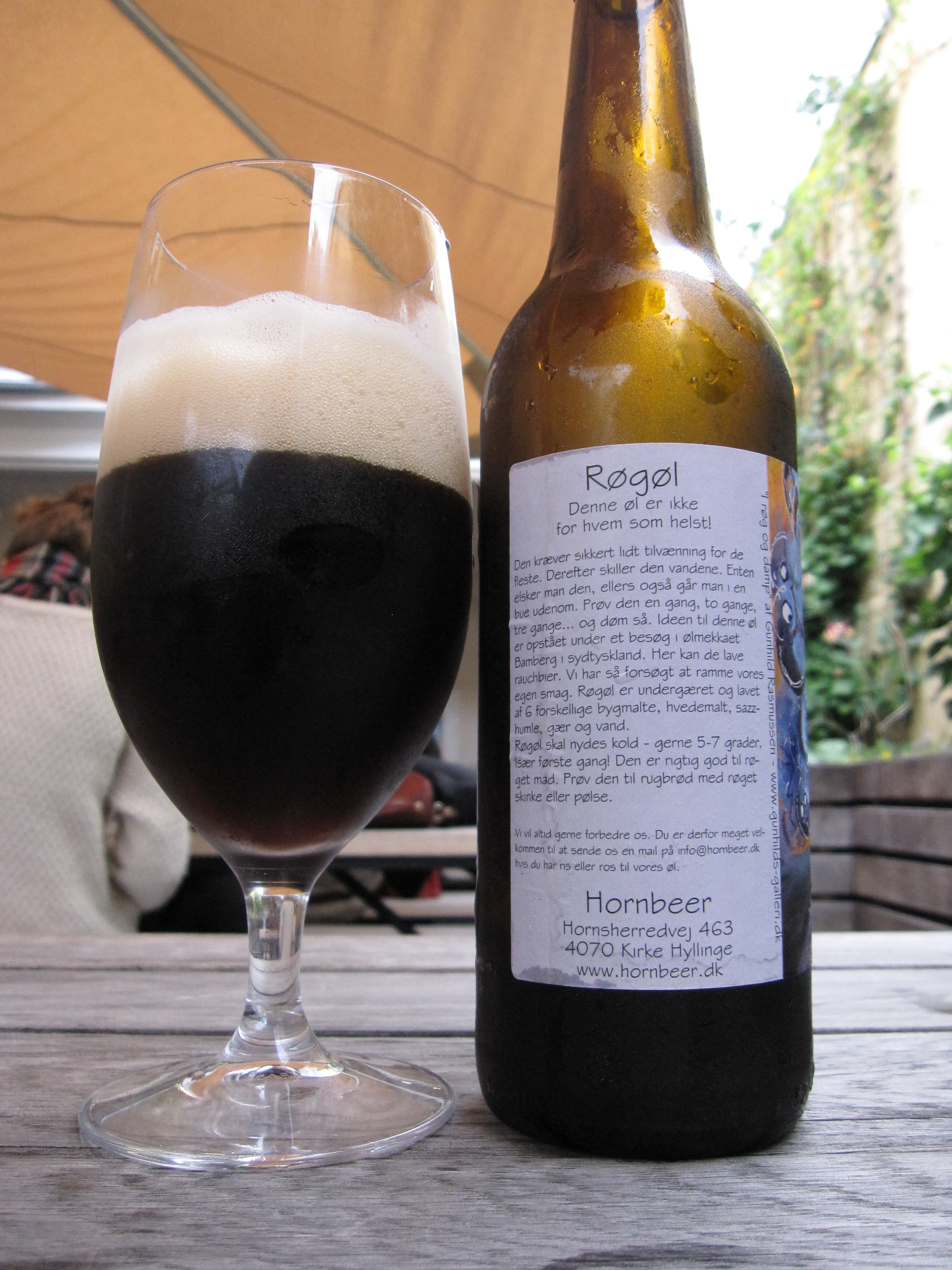 The back label on the bottle of Hornbeer Røgøl tells the story behind this brew (translated from Danish): Røgøl This beer is not meant for everyone! It may require some time to get used to. But then it separates the drinkers, either you love it or you'll walk a wide path around it. Try it once, twice, trice ... then judge. The idea for this beer came during a visit to the beer mecca of Bamberg in southern Germany. They know how to make rauchbier. This is our attempt to make a rauchbier. Røgøl is bottom fermented and brewed on six different barley malts, wheat malt, saaz hops, yeast and water.